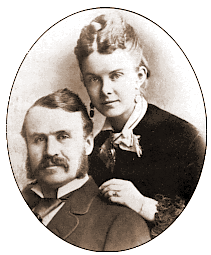 [dead link] Photo of W. S. Gilbert and his wife, Lucy Turner Gilbert, in 1867